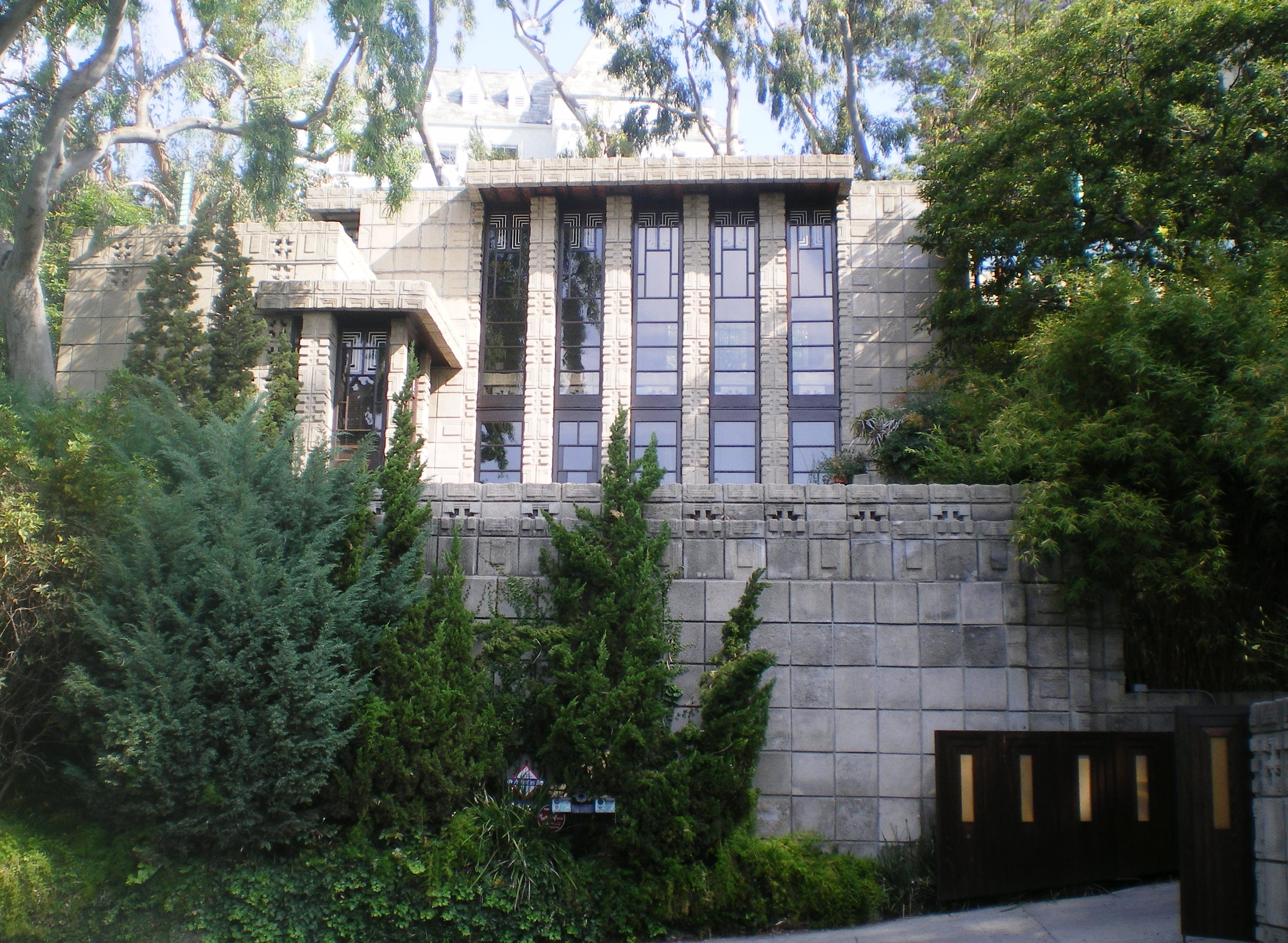 Storer House — Hollywood Boulevard, Hollywood, California